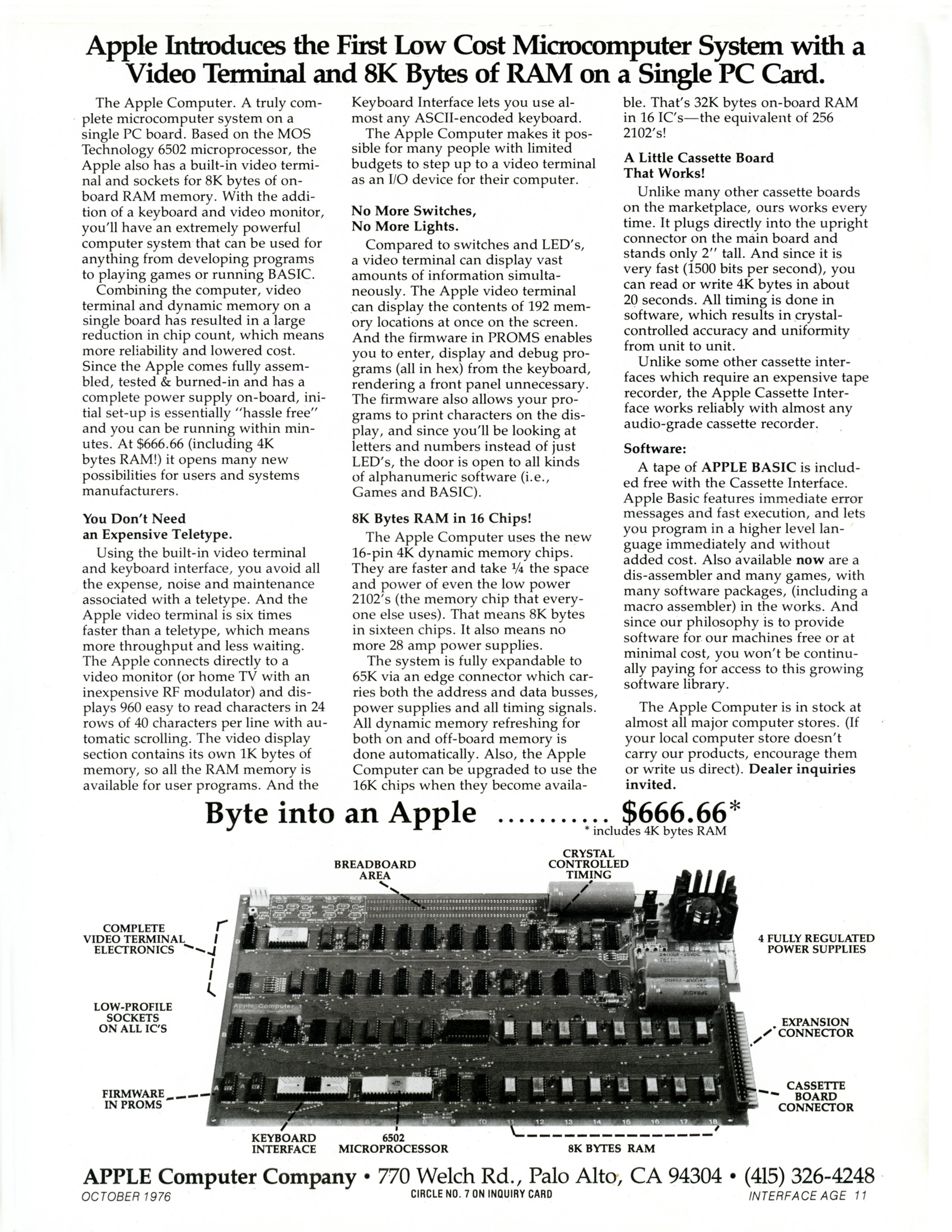 Introductory Apple 1 Computer advertisement published in the October 1976 issue of Interface Age magazine. In this issue also had an article titled "Interfacing the Apple Computer" by Steve Jobs. This described how to connect the Southwest Technical Products PR-40 printer to an Apple 1. (This same ad was also in the September issue.) Note the computer pictured is labeled "Apple Computer 1".